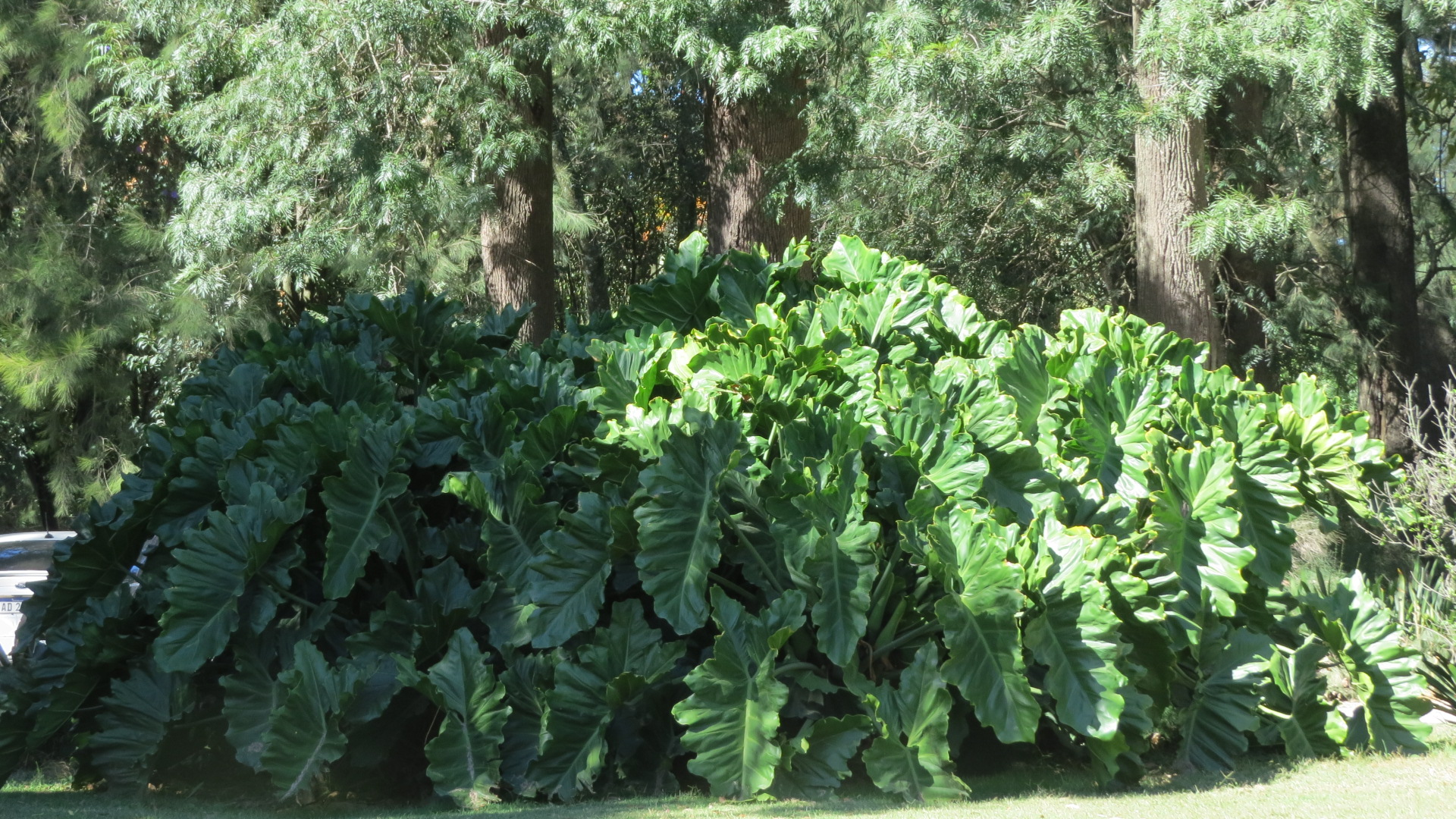 A güembé plant in Villa María estate, in Máximo Paz (Buenos Aires).